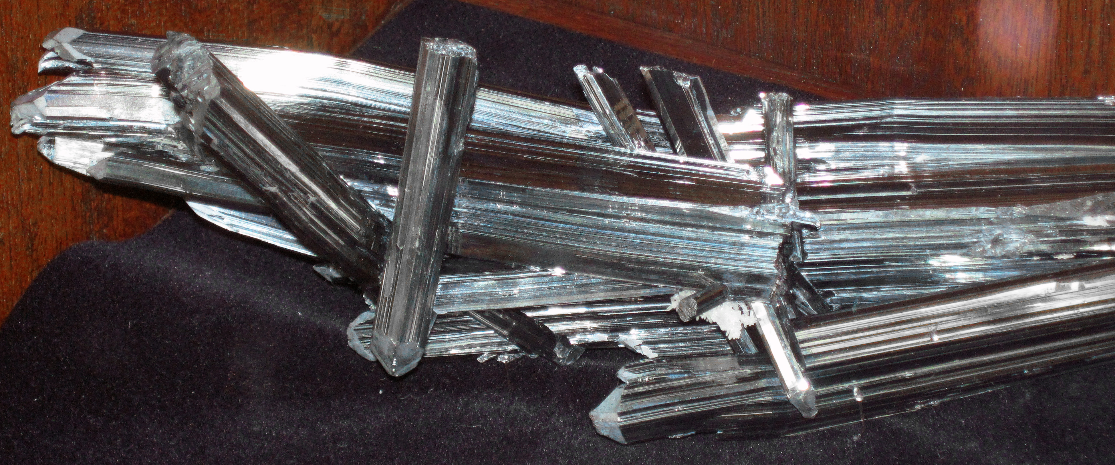 Stibnite from Japan. (public display, Montana Bureau of Mines and Geology Mineral Museum, Butte, Montana, USA) A mineral is a naturally-occurring, solid, inorganic, crystalline substance having a fairly definite chemical composition and having fairly definite physical properties. At its simplest, a mineral is a naturally-occurring solid chemical. Currently, there are over 4900 named and described minerals - about 200 of them are common and about 20 of them are very common. Mineral classification is based on anion chemistry. Major categories of minerals are: elements, sulfides, oxides, halides, carbonates, sulfates, phosphates, and silicates. The sulfide minerals contain one or more sulfide anions (S-2). The sulfides are usually considered together with the arsenide minerals, the sulfarsenide minerals, and the telluride minerals. Many sulfides are economically significant, as they occur commonly in ores. The metals that combine with S-2 are mainly Fe, Cu, Ni, Ag, etc. Most sulfides have a metallic luster, are moderately soft, and are noticeably heavy for their size. These minerals will not form in the presence of free oxygen. Under an oxygen-rich atmosphere, sulfide minerals tend to chemically weather to various oxide and hydroxide minerals. Stibnite is an antimony sulfide mineral (Sb2S3). Stibnite is quite distinctive for in forming long, slender crystals. It has a metallic luster, a silvery-gray color, is fairly soft (H=2), and has a dark gray streak. Stibnite has economic value - it’s mined in several parts of the world for antimony (Sb). The most significant modern source of stibnite specimens is South China. Locality: Iyo Province, Shikoku Island, southwestern Japan Photo gallery of stibnite